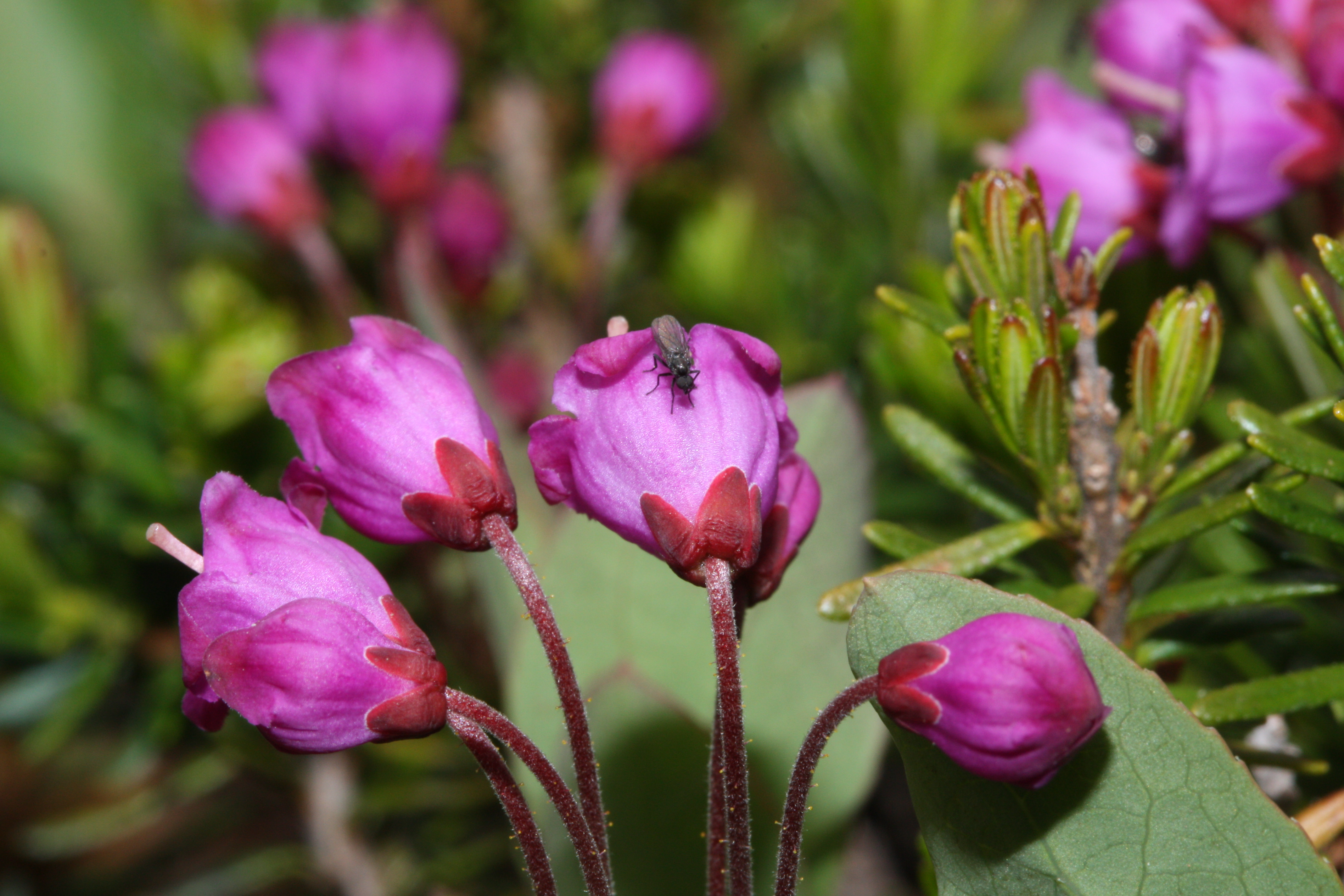 Pink Mountain-heath